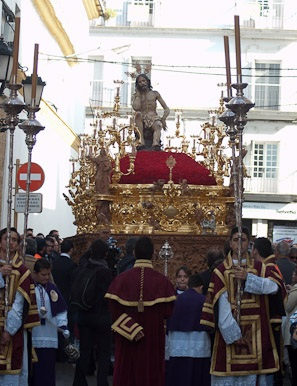 Humildad de Chiclana